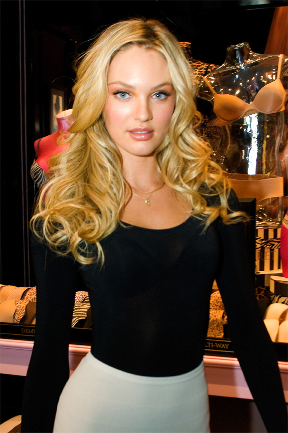 Candice Swanepoel at Victoria's Secret Michigan Avenue Store Hosting "The Nakeds" Launch in Chicago, IL, USA on March 31, 2010. Photo by Adam Bielawski